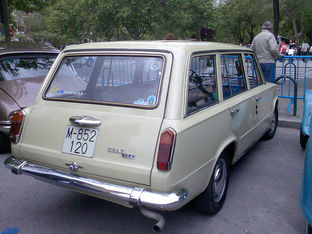 S.E.A.T.124 FAMILIAR FINES '60 ESPAÑA Seat